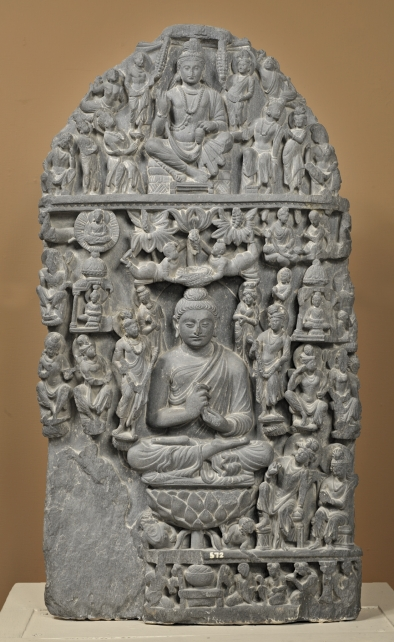 Buddha and the other divinities 85 X 47 cms c. 3rd century A.D. Provenance unknown Acc.No-572